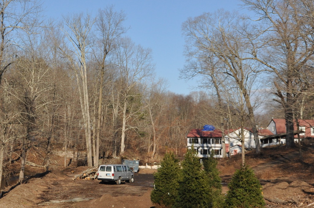 Maltby-Stevens Factory Site, North Branford, Connecticut. Surviving portions of the dam are visible to the left fo the building.